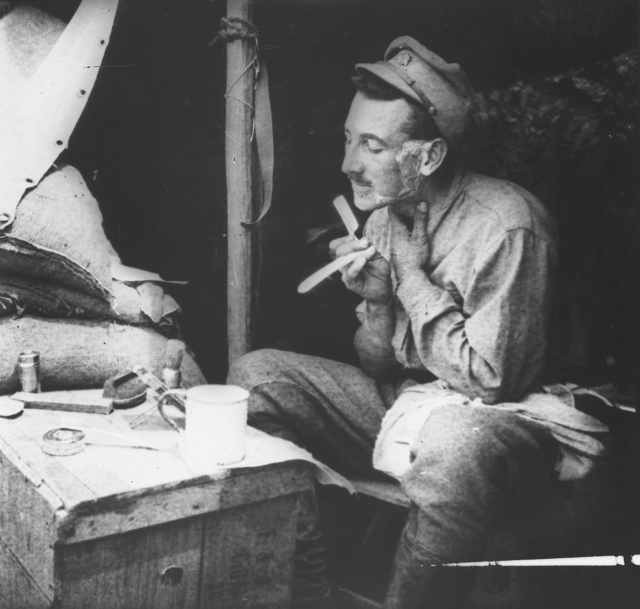 AWM caption : Ottoman Empire: Turkey, Gallipoli, Rest Gully. Captain George Frederick Wootten, Adjutant, 1st Battalion, having a shave at the entrance to his dugout on the Gallipoli Peninsula.